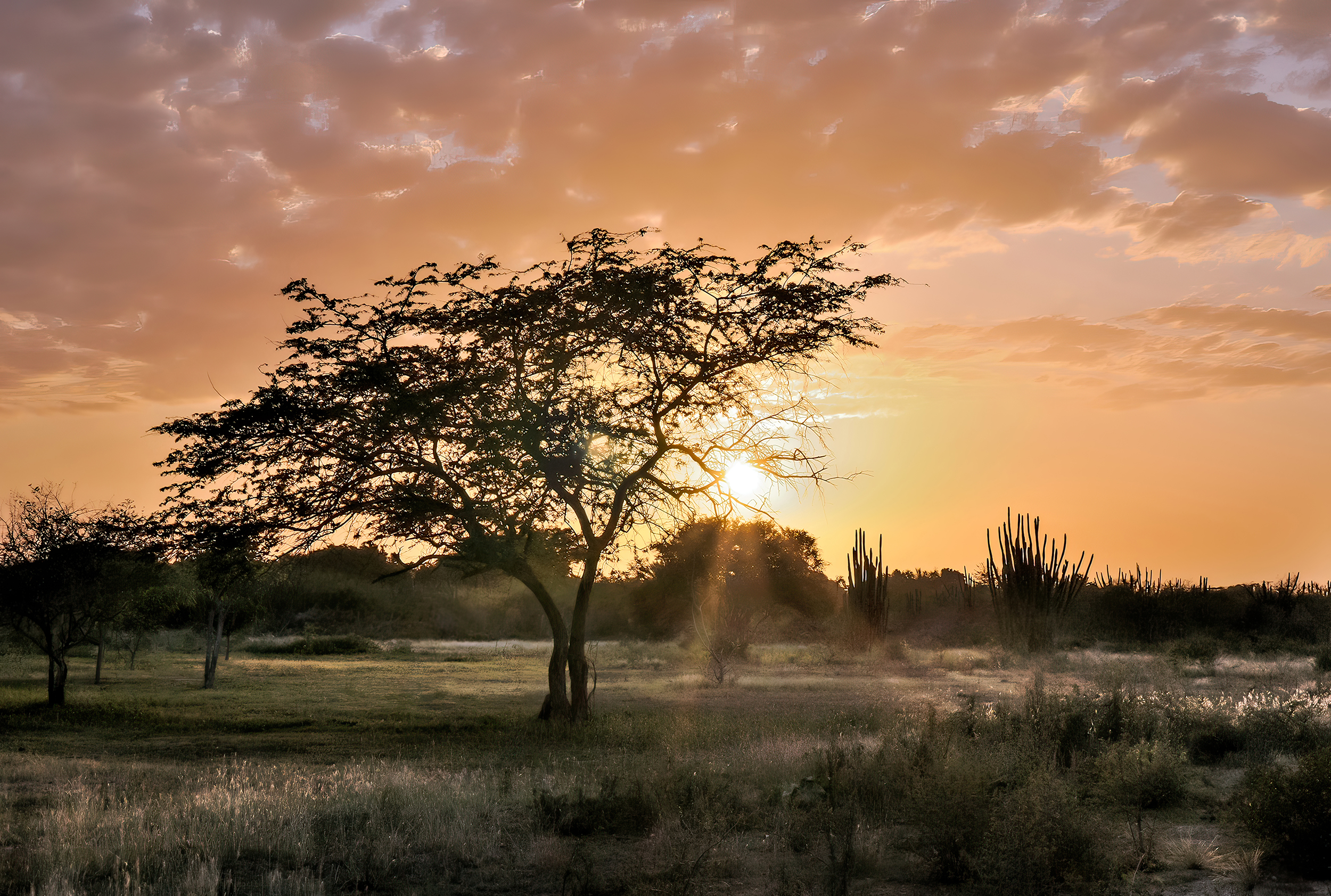 Backlit Margarita Island Sunset in Las Guevaras, Venezuela